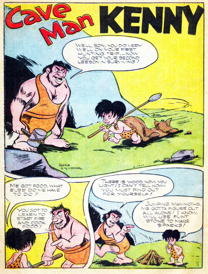 The Black Terror #16, Page 36 October, 1946